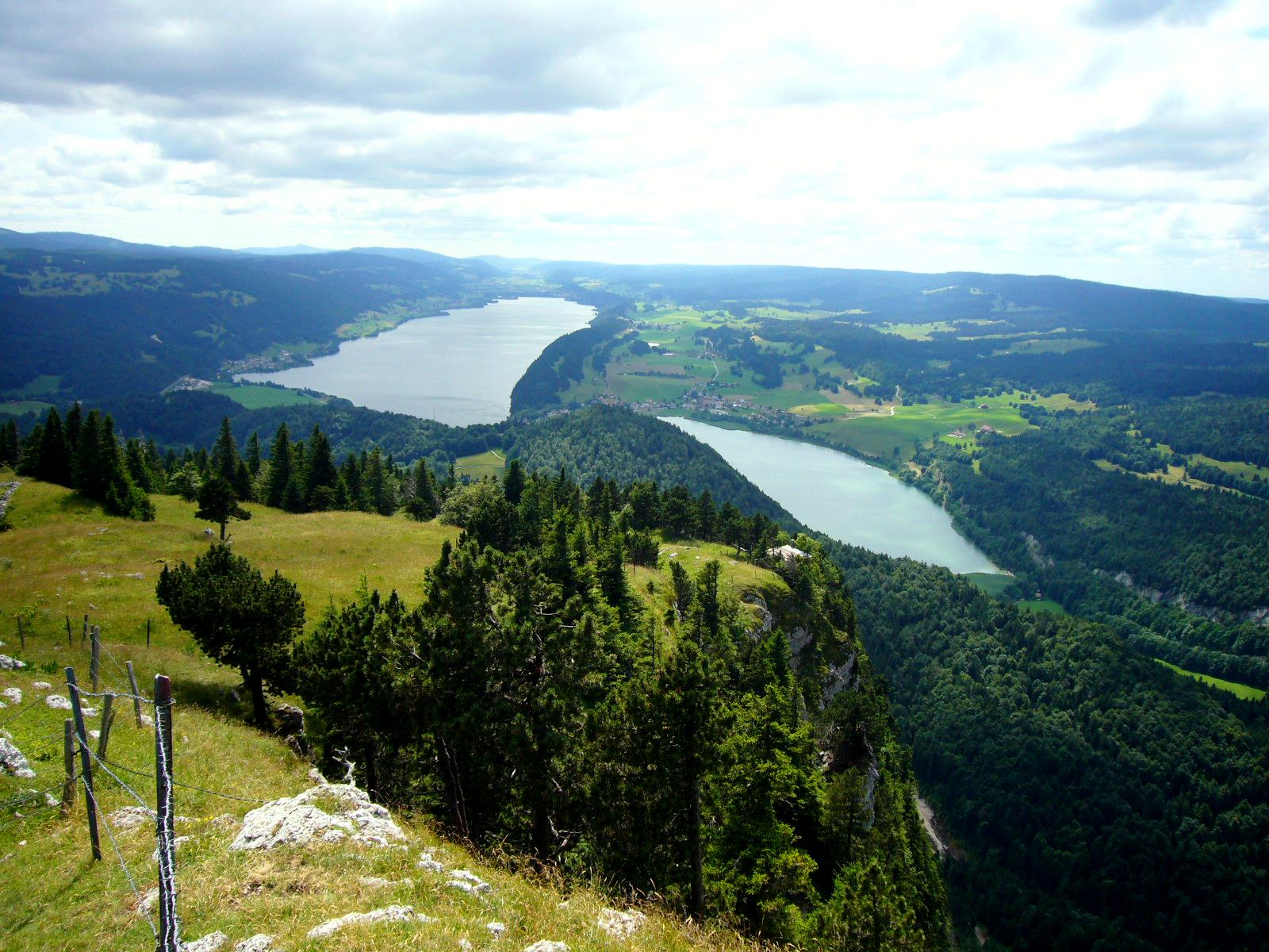 Vallée de Joux, Lake Joux and lake Brenet from Dent de Vaulion, Switzerland